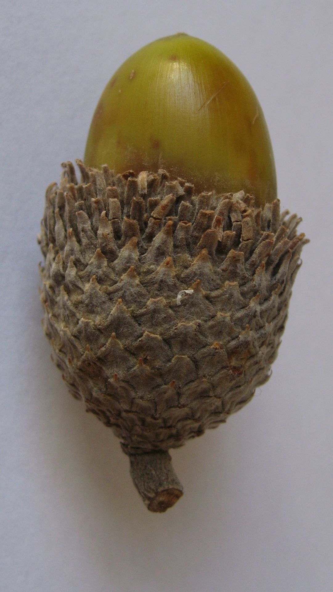 Oak (Quercus brantii) in Zagros mountain range, Kurdistan, near Merîwanکوردی: بەڕوو لە گوندی پیرسەفا لە ناوچەی مەریوان